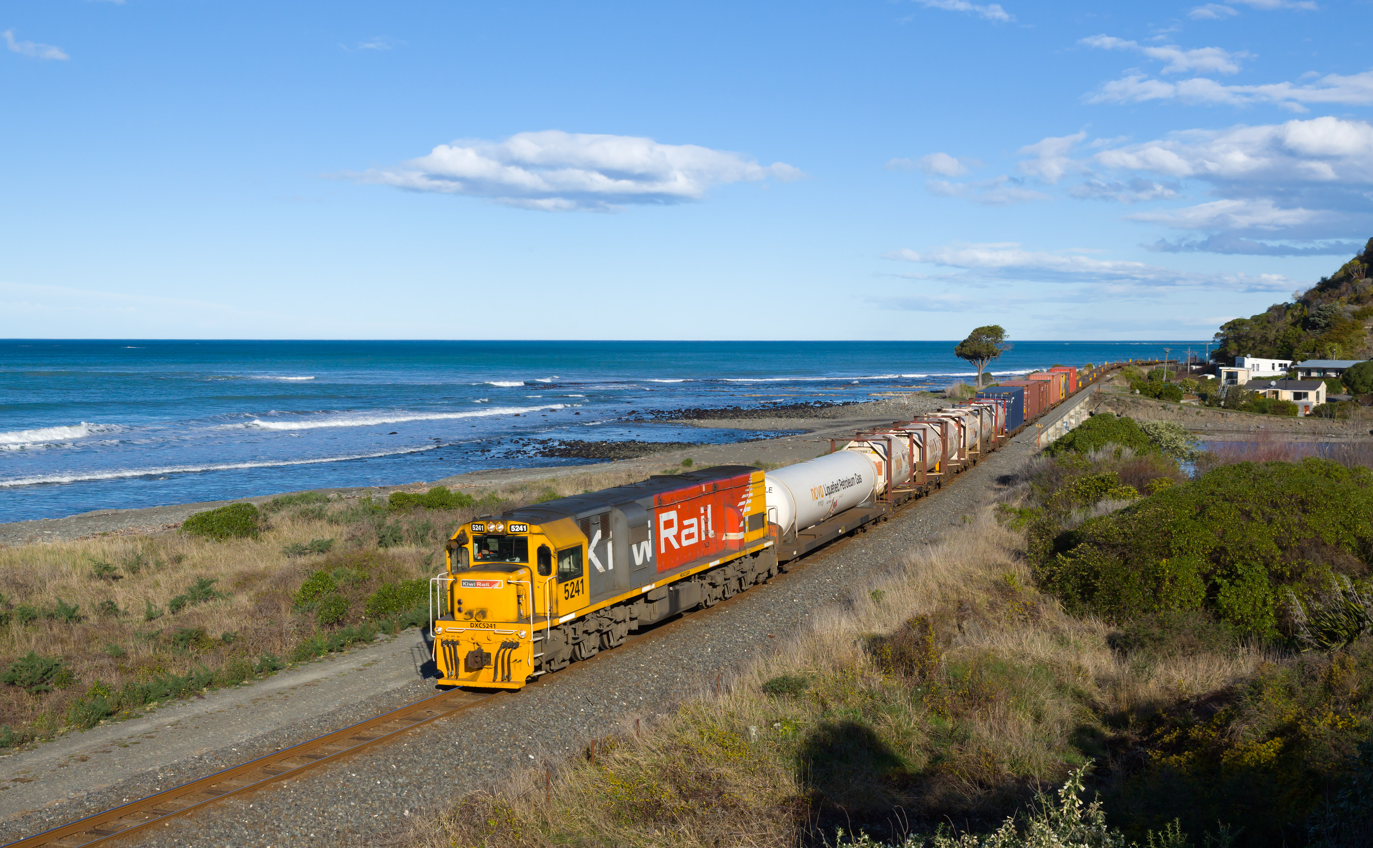 KiwiRail's DXC 5241 hauls a mixed freight train from Christchurch to Picton. Pictured at Oaro, New Zealand.